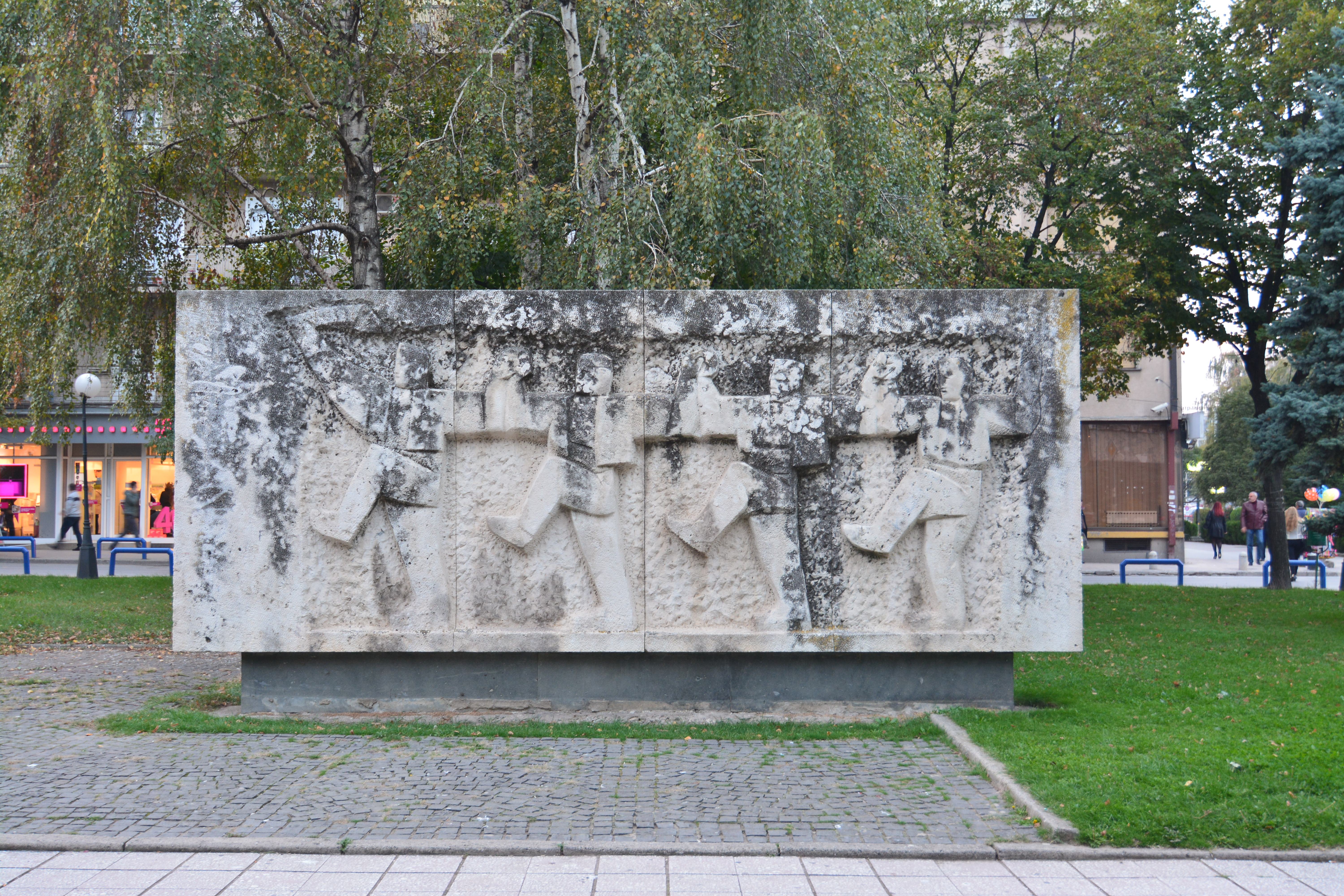 Monument from the Second World War, Kumanovo, Macedonia